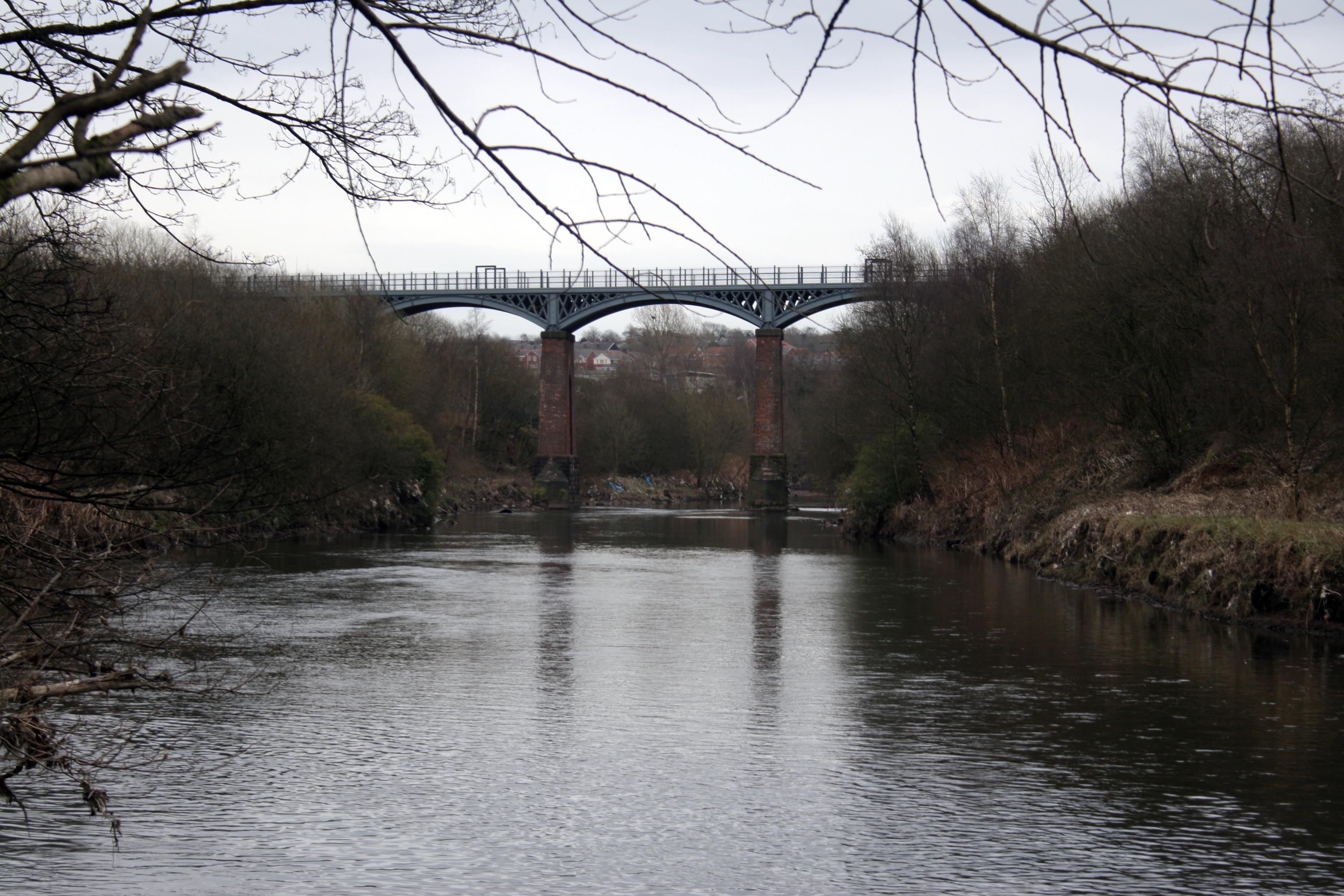 Outwood Viaduct from the west, looking east.